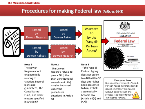 A diagram of the process for making Malaysian Federal laws